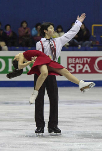 2008-2009 ISU Junior Grand Prix Final - Maia and Alex Shibutani